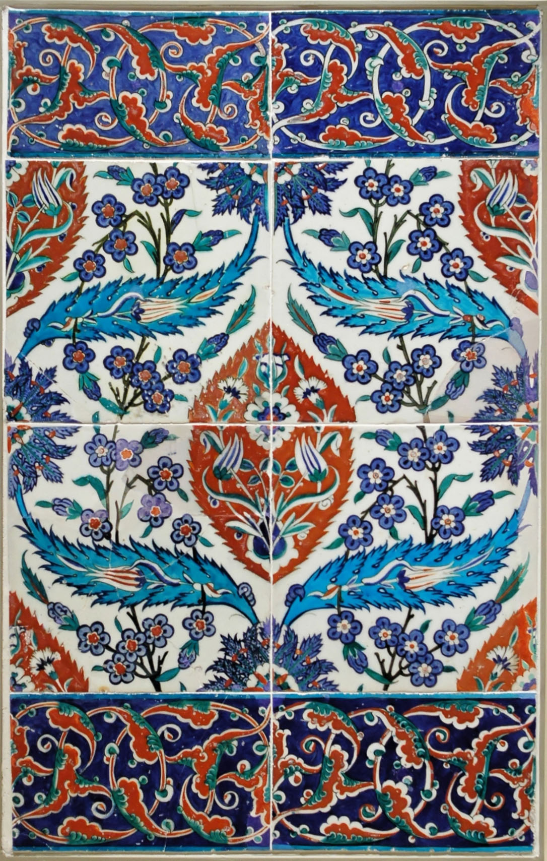 Tile panel with mandorla. Fritware (stonepaste), transparent glaze, painted underglaze on slip. Turkey: Iznik, second half of the 16th century.